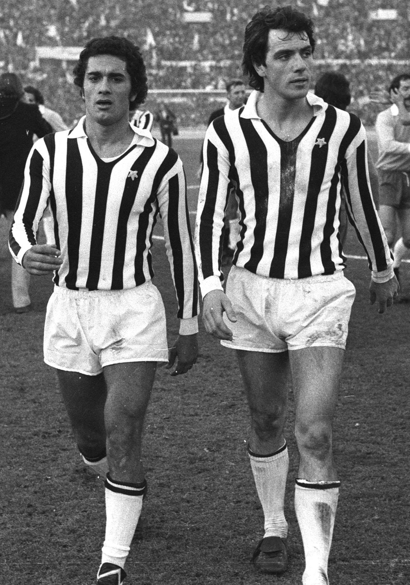 Rome (Italy), Olympic Stadium, January 5, 1975. From left to right: Claudio Gentile and Roberto Bettega, footballers of Juventus F.C., leave the pitch disappointed after the defeat versus S.S. Lazio (0-1), Matchday 12 of the Italian League 1974–75 Serie A.